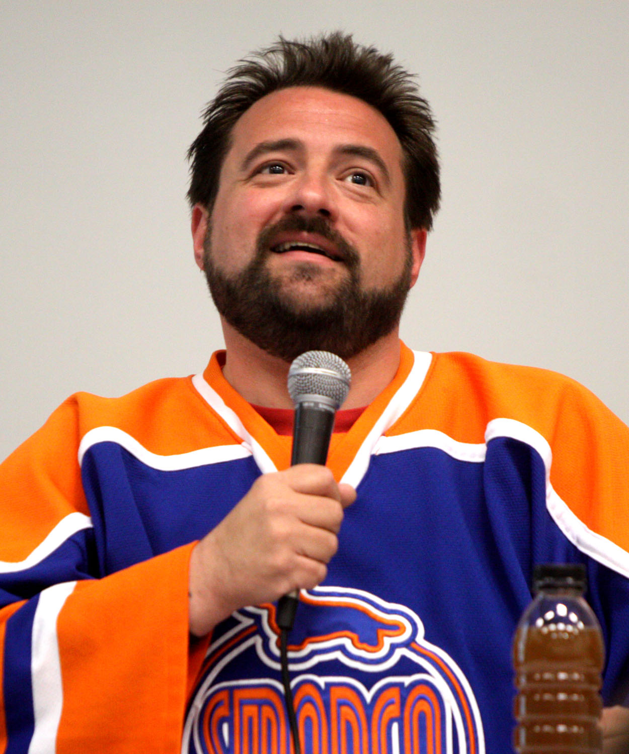 Kevin Smith speaking at VidCon 2012 at the Anaheim Convention Center in Anaheim, California.